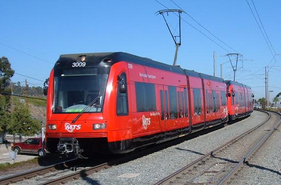 San Diego Trolley Green Line, westbound, approaching El Cajon Transit Center The Train Is A Consist of 2 Siemens S70 Cars